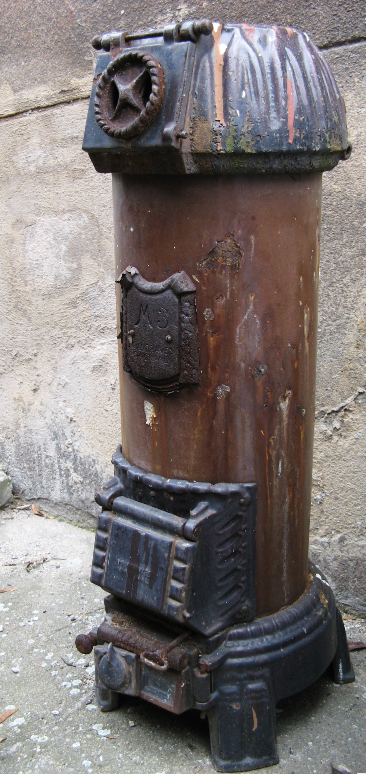 Heating stove Musgraves